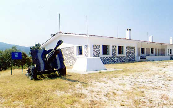 External view, image from the Fort Rupel, Sidirokastro, Central Macedonia, Greece